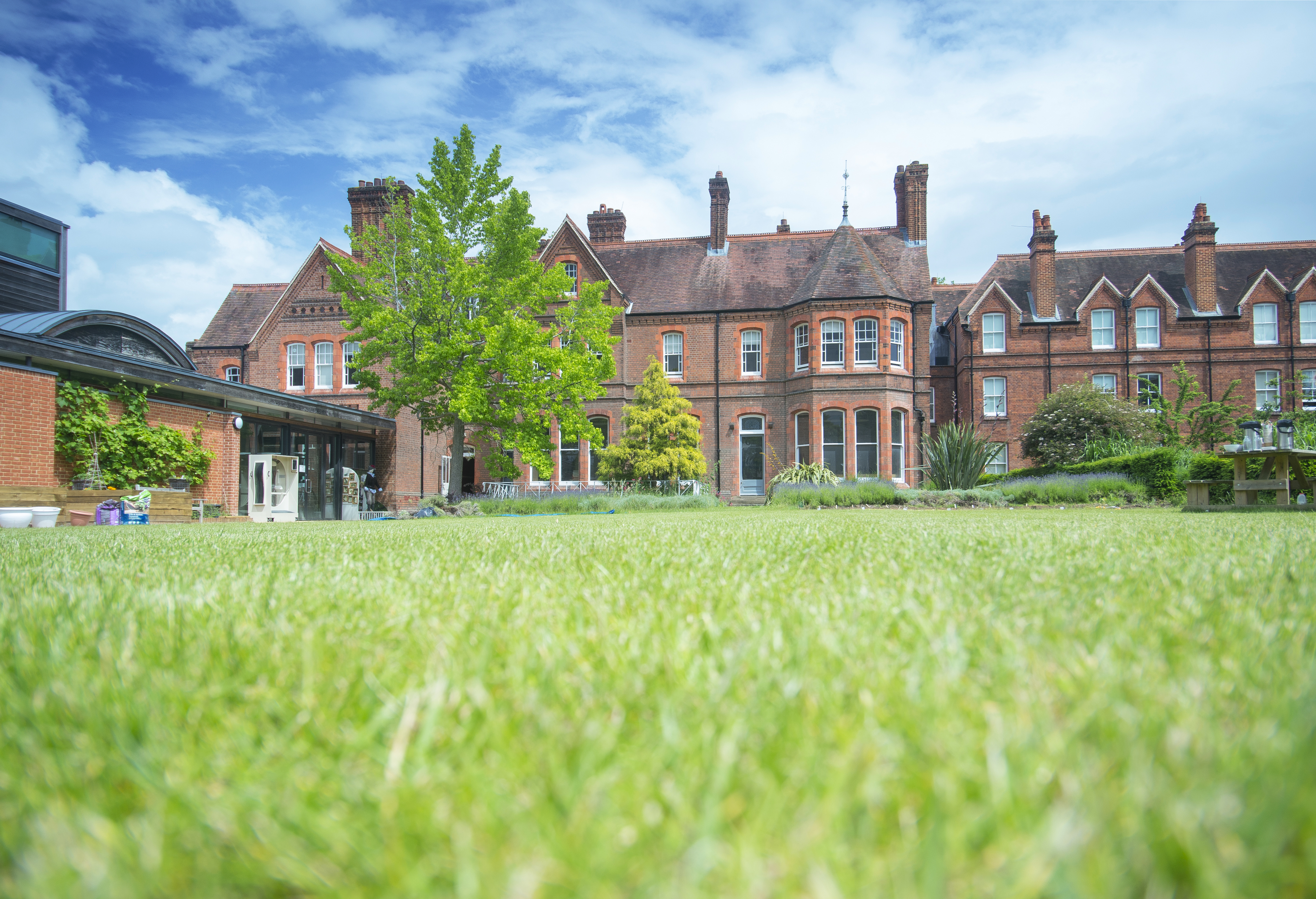 A view of the Grade II-listed building which houses the Museum of English Rural Life. The building is formed of the family home of Victorian businessman Alfred Palmer, the former St Andrew's Hall of residence of the University of Reading and a modern building which houses the museum collection.